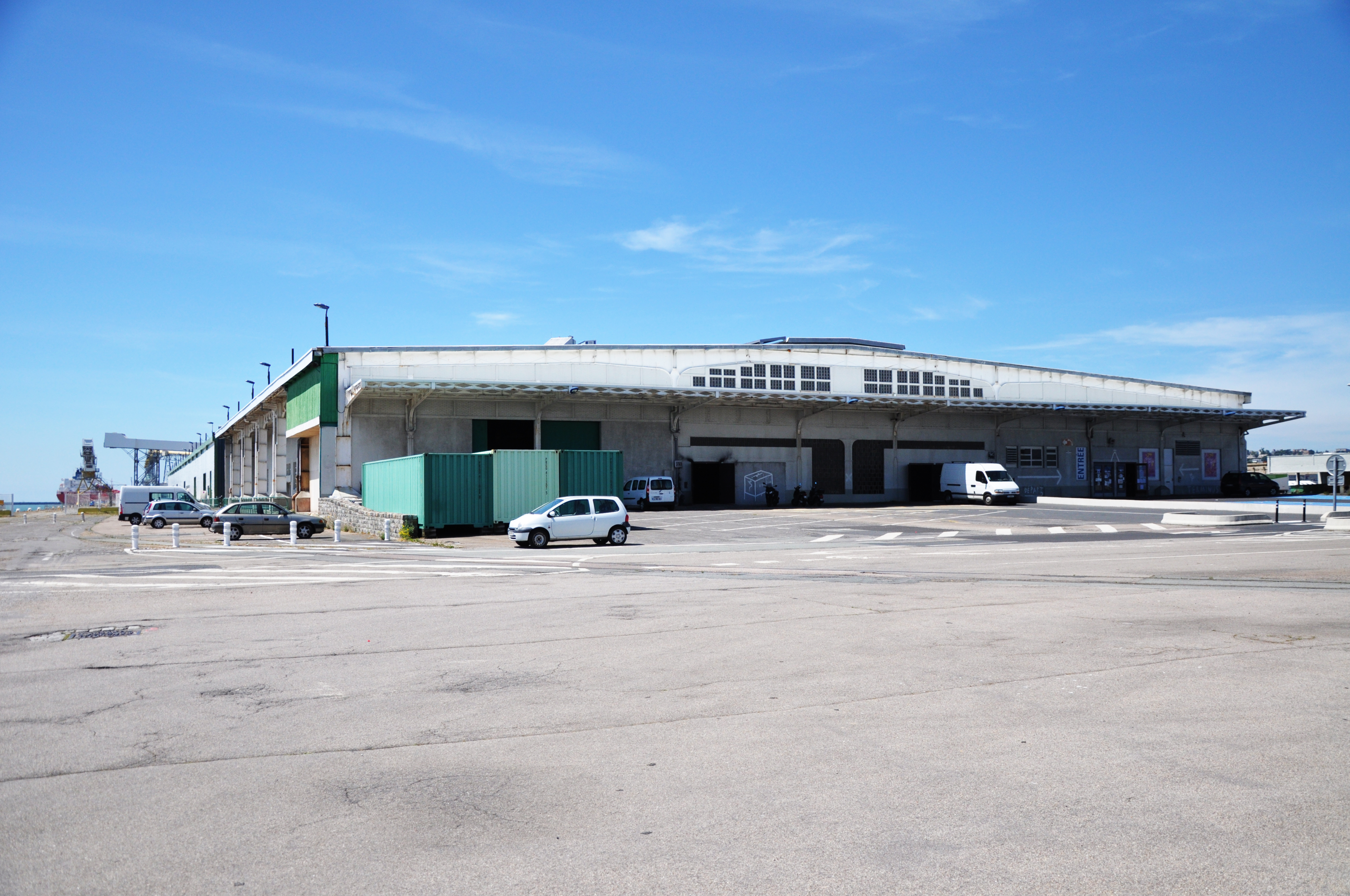 Former maritime station of Le Havre (France,Normandy. Background: ship on left.)